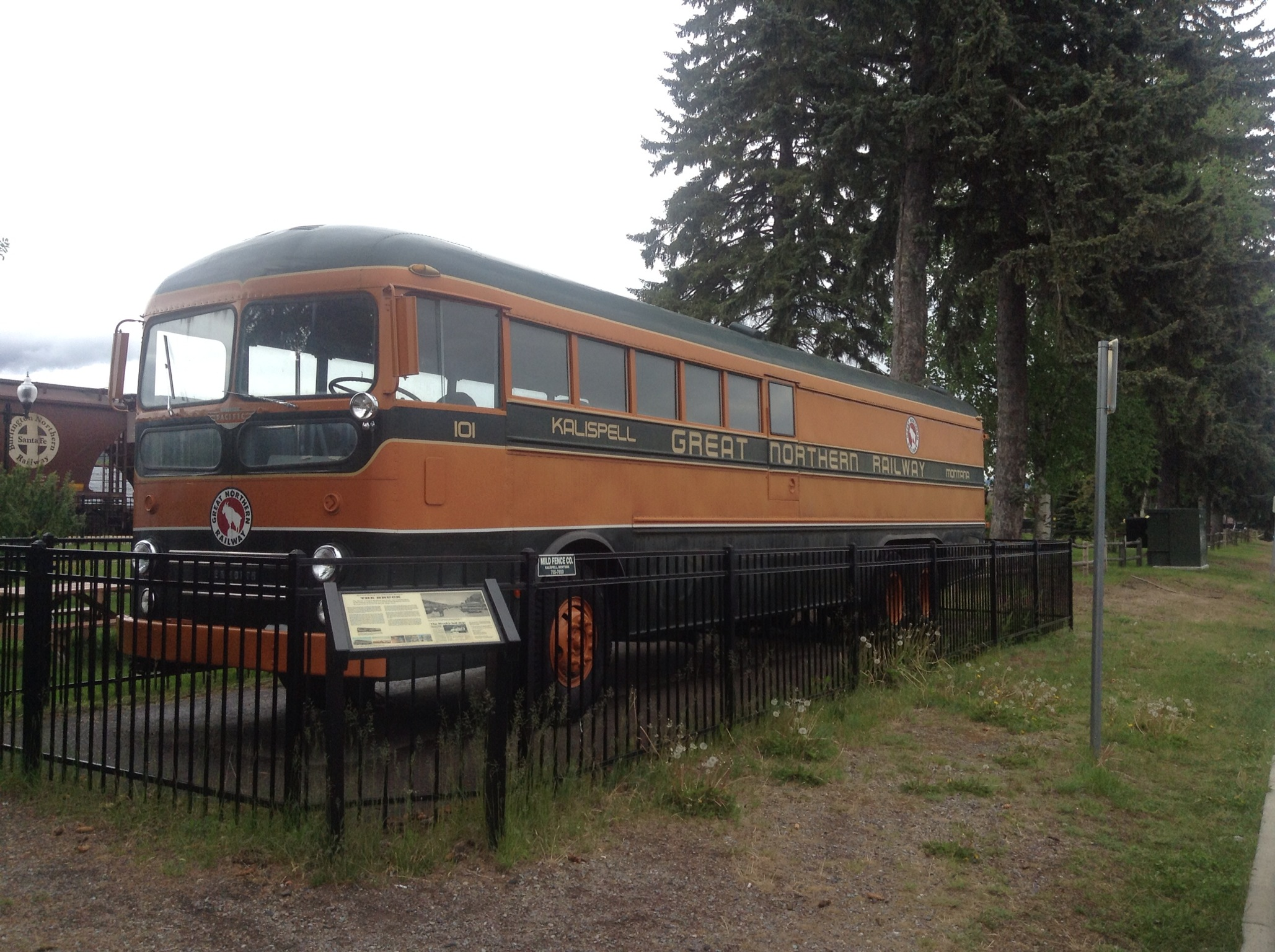 Used between 1952 and 1972, this bus was used to shuttle train passengers around to the local towns.